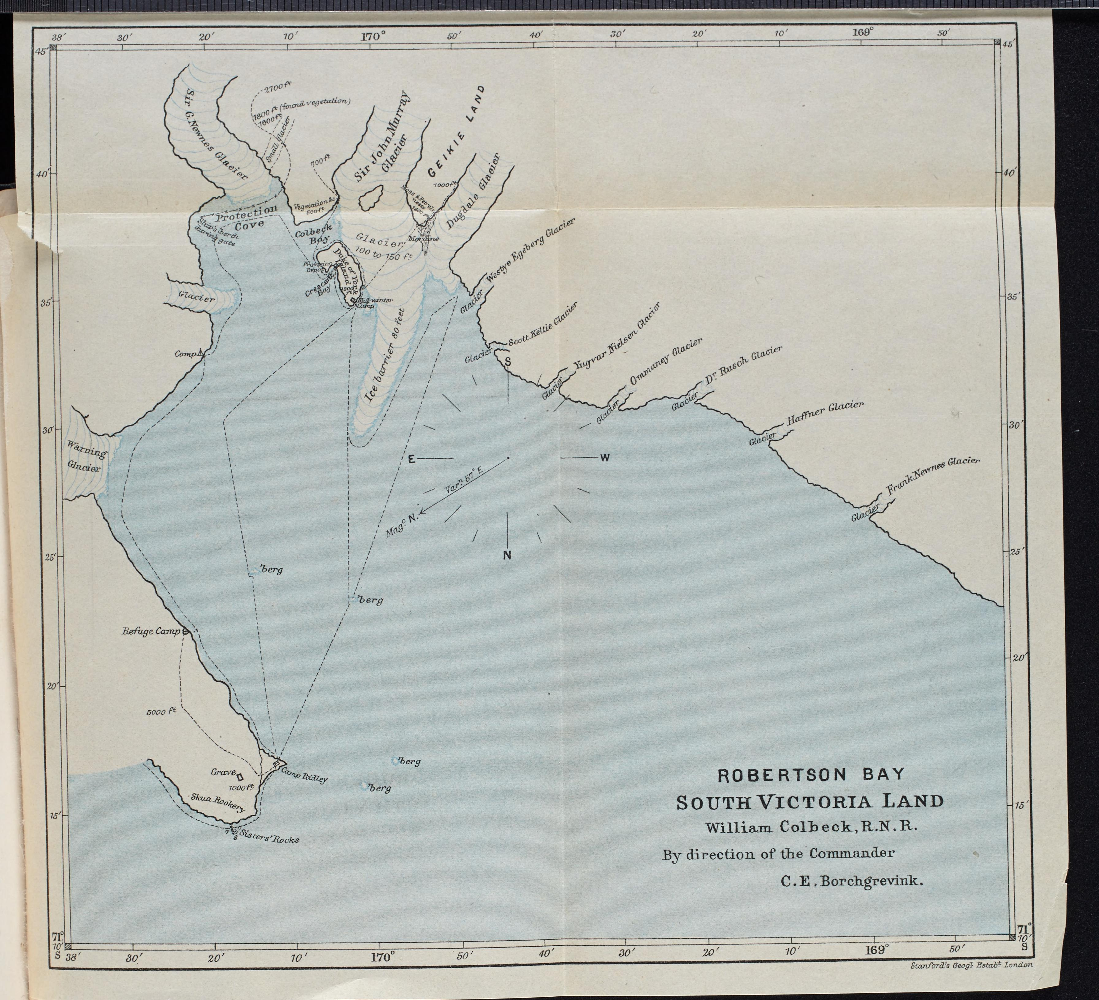 First on the Antarctic continent : being an account of the British Antarctic expedition, 1898-1900 /